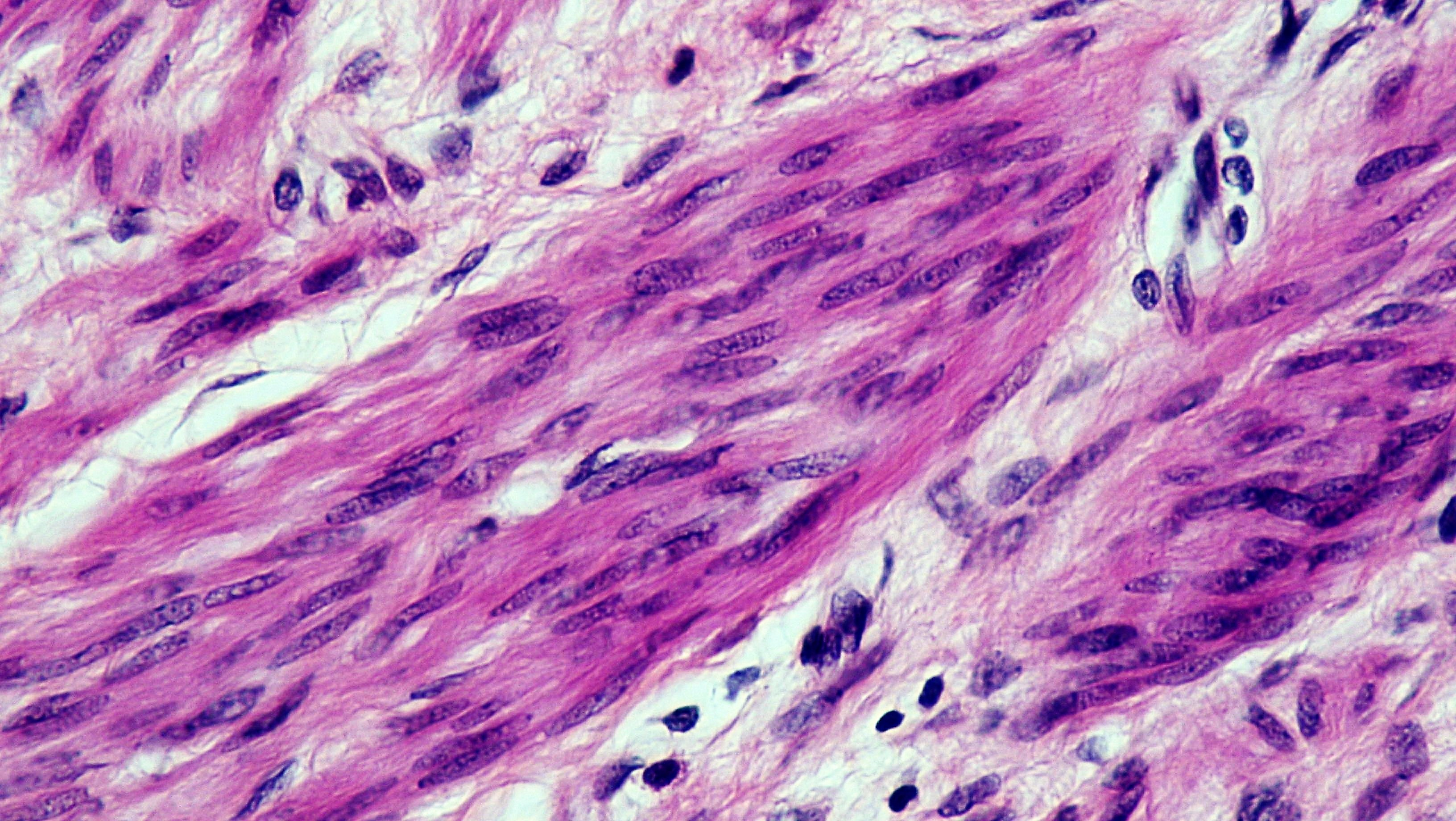 cross section: smooth muscle magnification: 400x